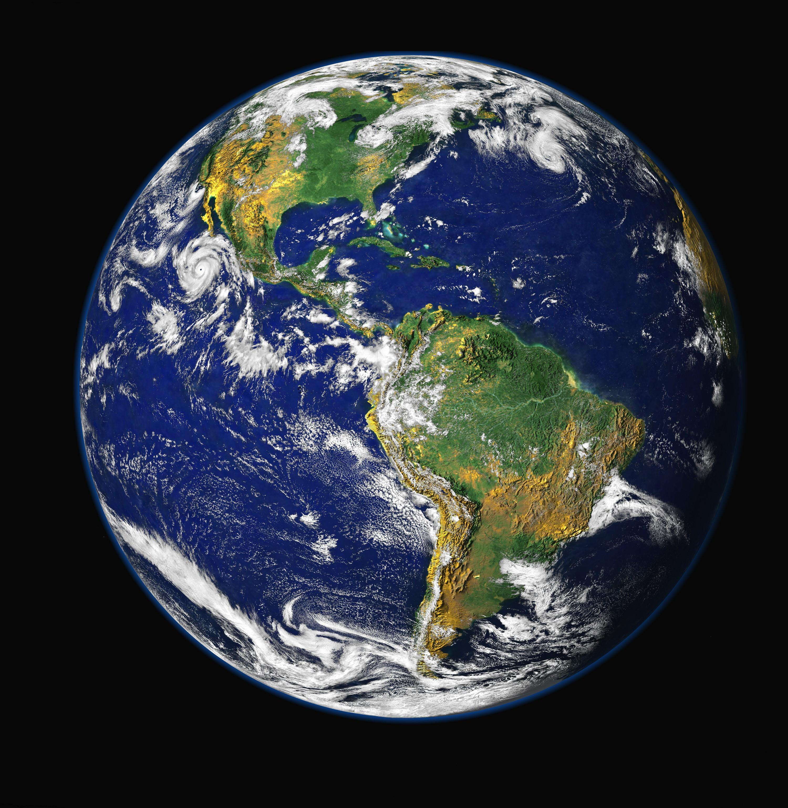 A composite image of the Western hemisphere of the Earth.